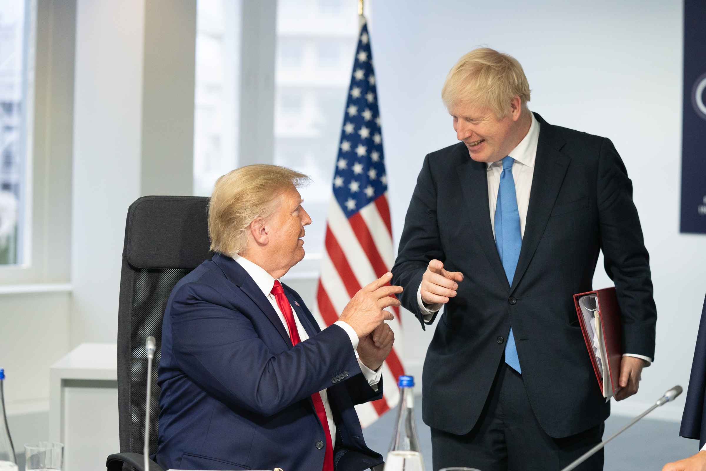 President Donald J. Trump, joined by G7 Leaders, attends the G7 Closing Session at the Centre de Congrés Bellevue Monday, Aug. 26, 2019, in Biarritz, France, site of the G7 Summit. (Official White House Photo by Shealah Craighead)